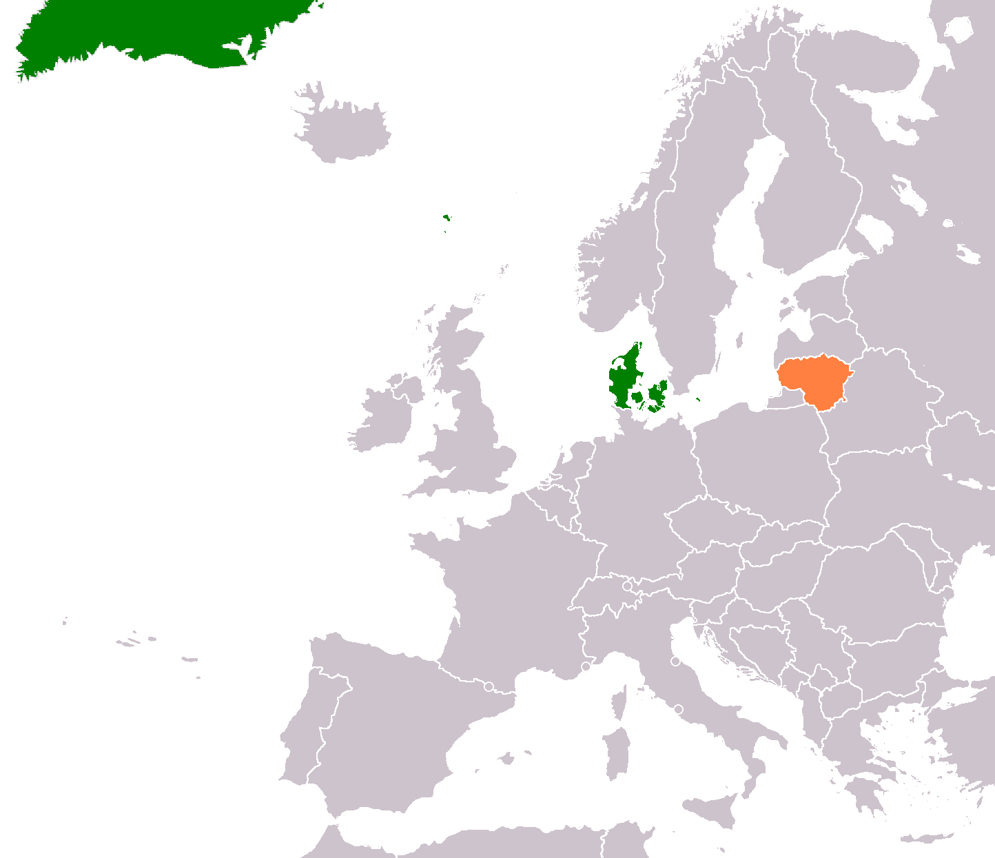 Location of Denmark and Lithuania